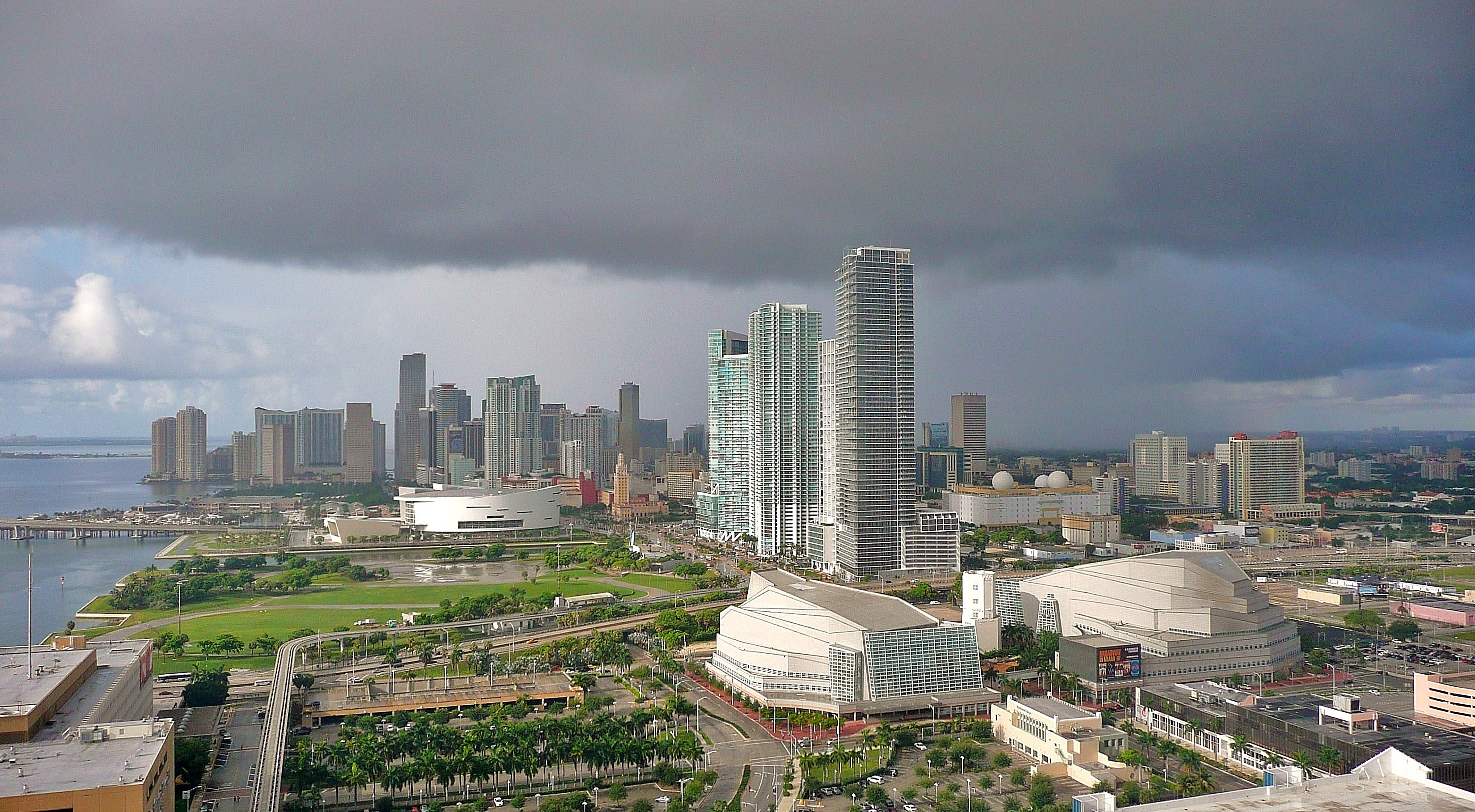 Digital photo taken by Marc Averette. Typical summer weather in Downtown Miami, Florida, United States.